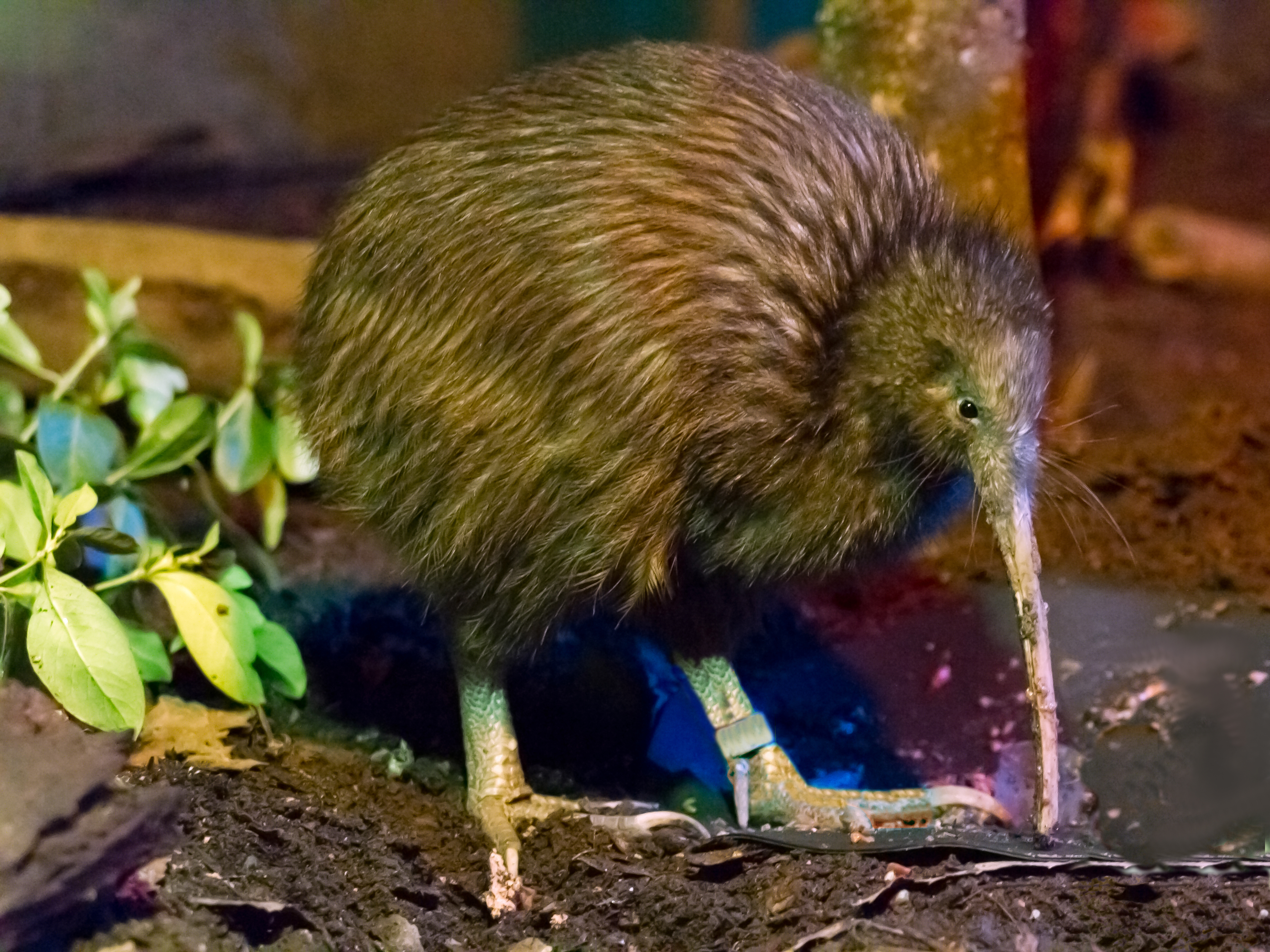 A North Island Brown Kiwi at Rainbow Springs Kiwi Wildlife Park in Rotorua, North Island, New Zealand.